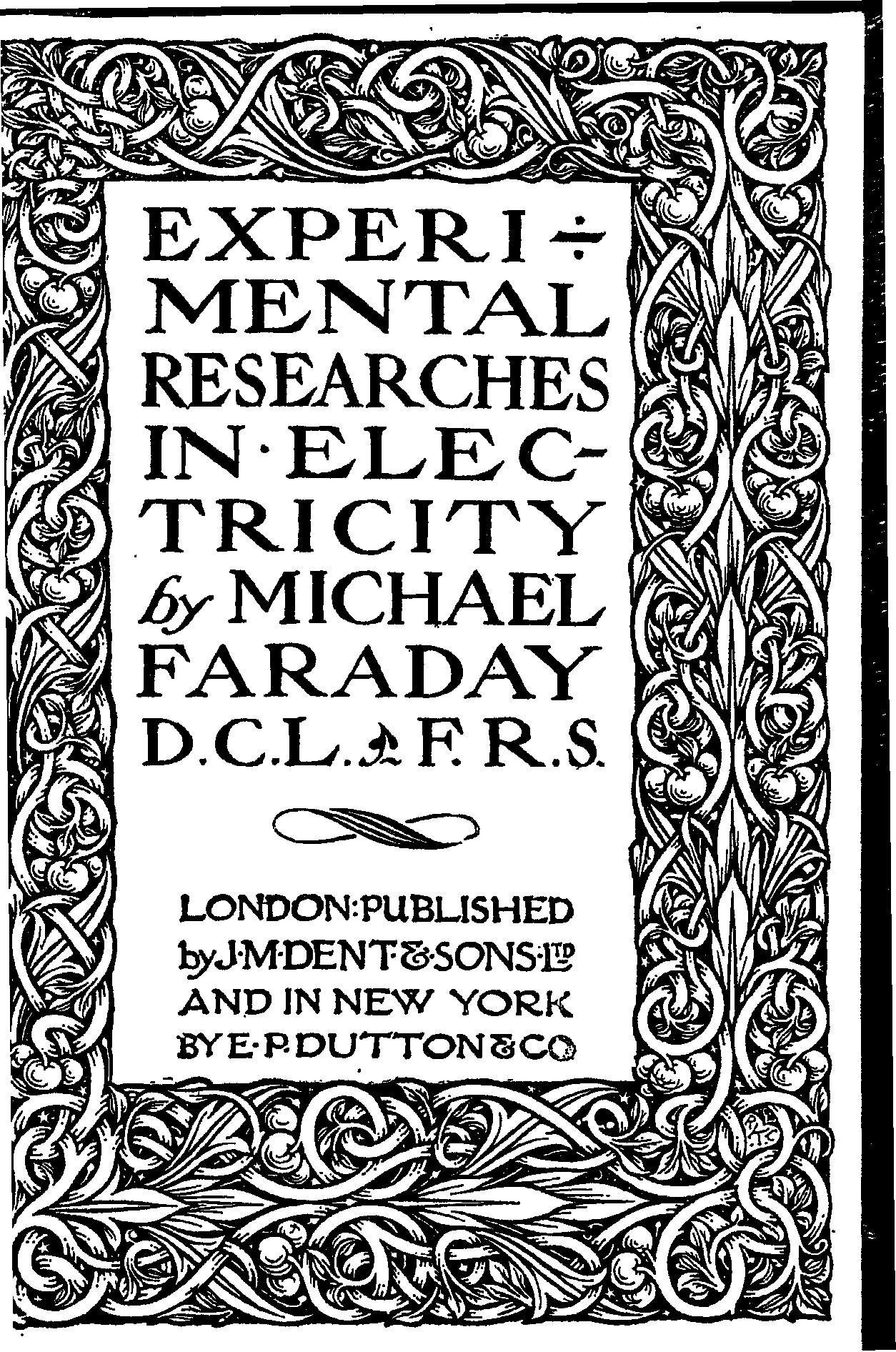 Farady, Michael: Experimental researches in electricity.